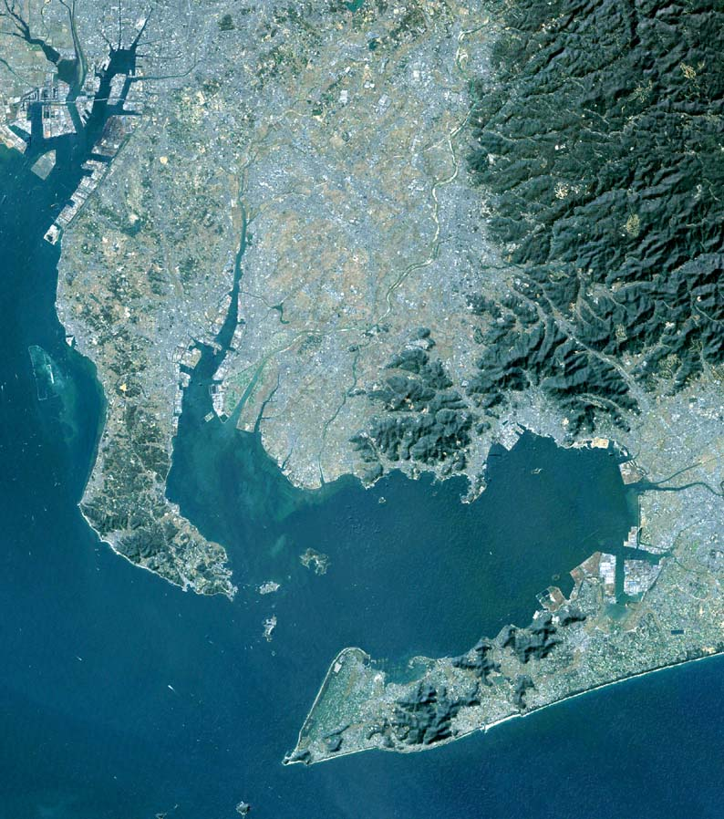 Mikawa Bay with Chita Peninsula left and Atsumi Peninsula below, Aichi Prefecture, Japan.